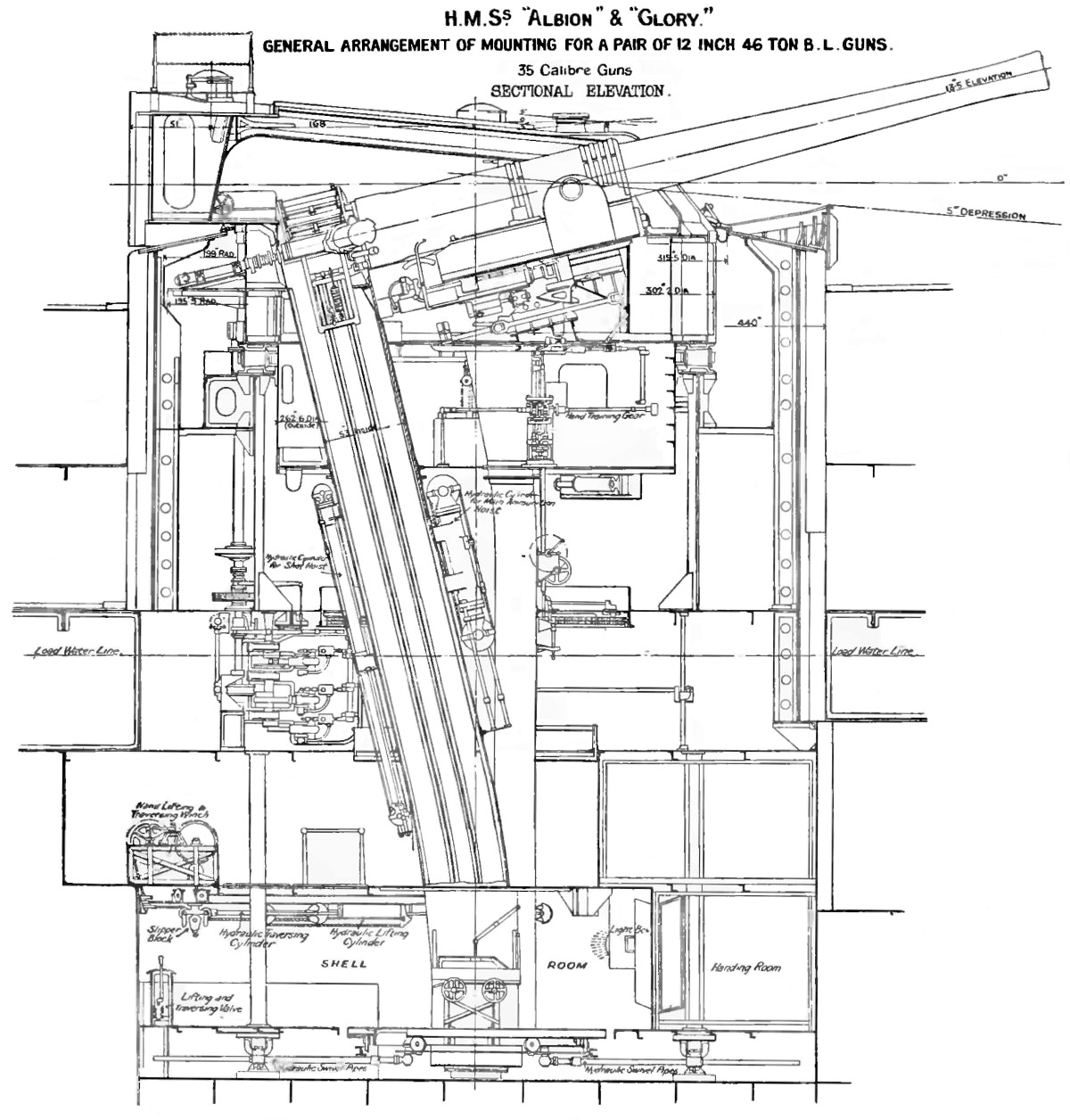 Right elevation diagram of 12-inch gun turret of British Canopus class battleship.